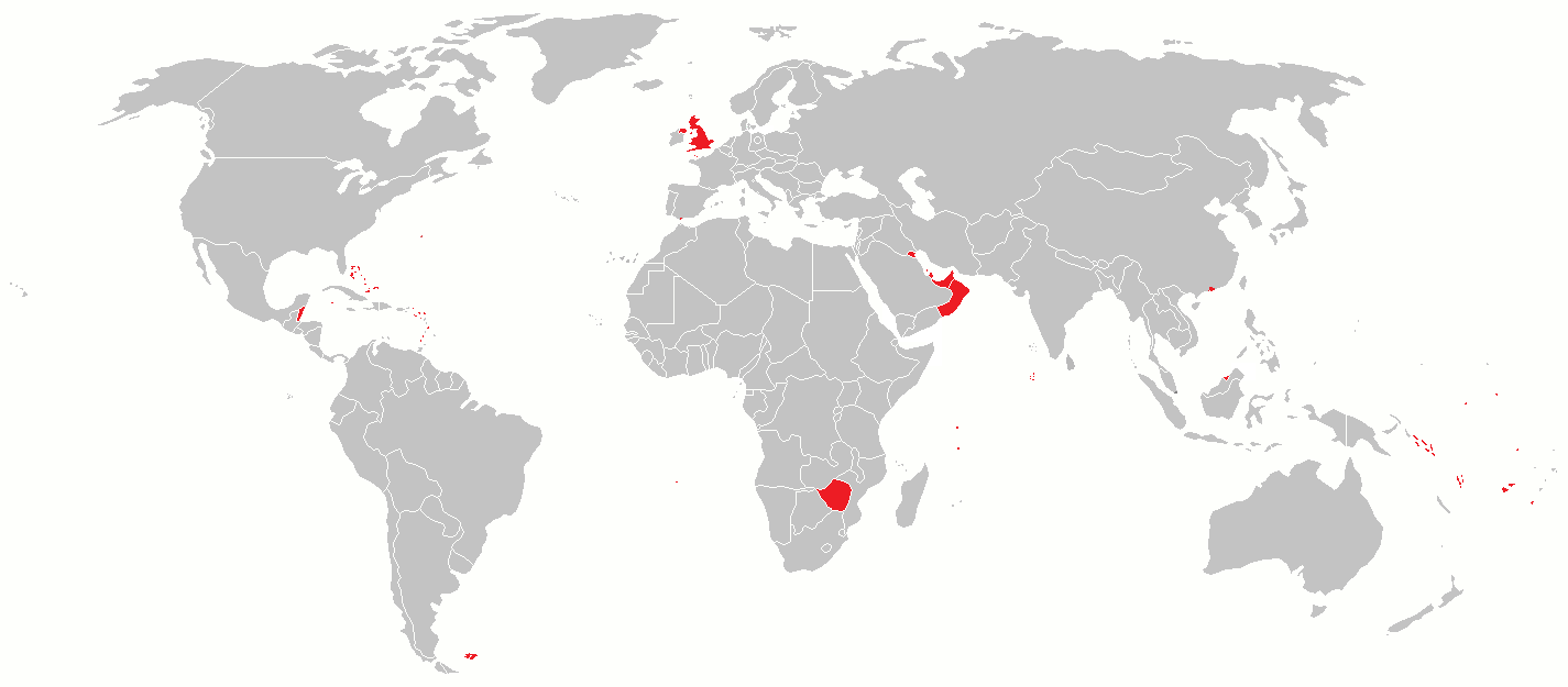 A map of the British Empire as it was in 1969, with the process of decolonisation mostly complete.